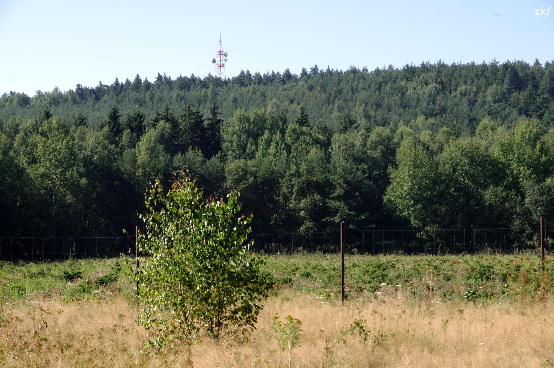 View of the hill Krkavec from the path of pond Strženka